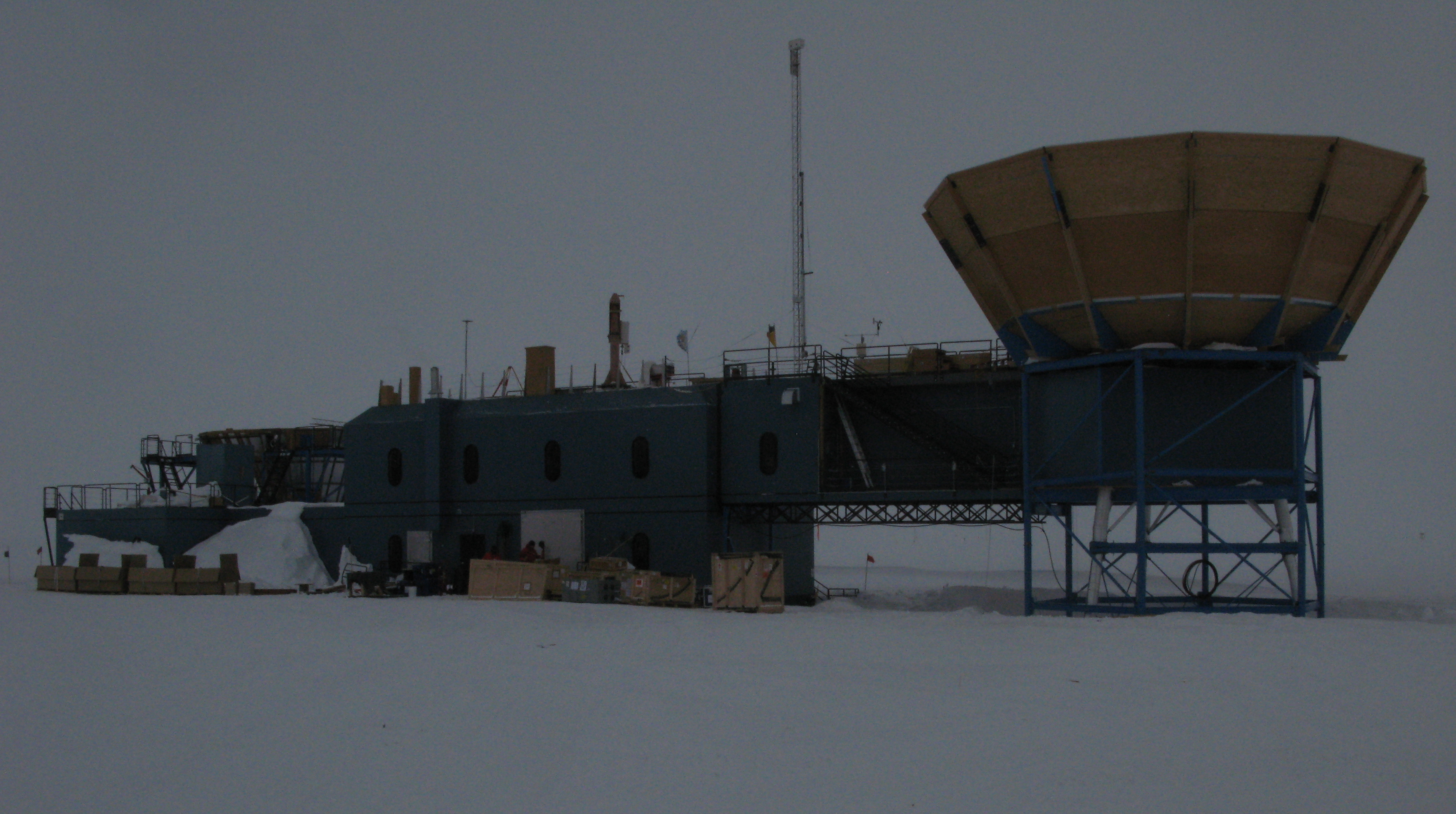 The Martin A. Pomerantz Observatory (MAPO) at Amundsen–Scott South Pole Station. At right is the Keck Array telescope.